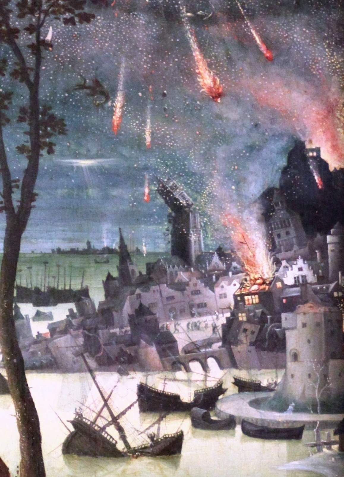 Lot and his daughters, Louvre (detail 4): Sodom